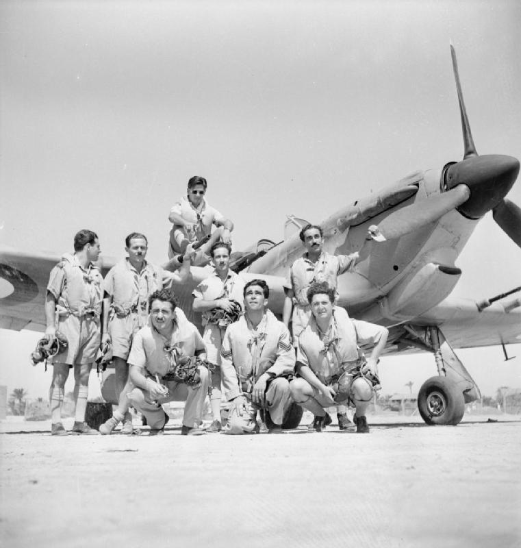 IWM caption : A group of pilots of No. 335 (Hellenic) Squadron RAF pose in front of one of their recently-received Hawker Hurricane Mark IICs at Dhekeila, Egypt.